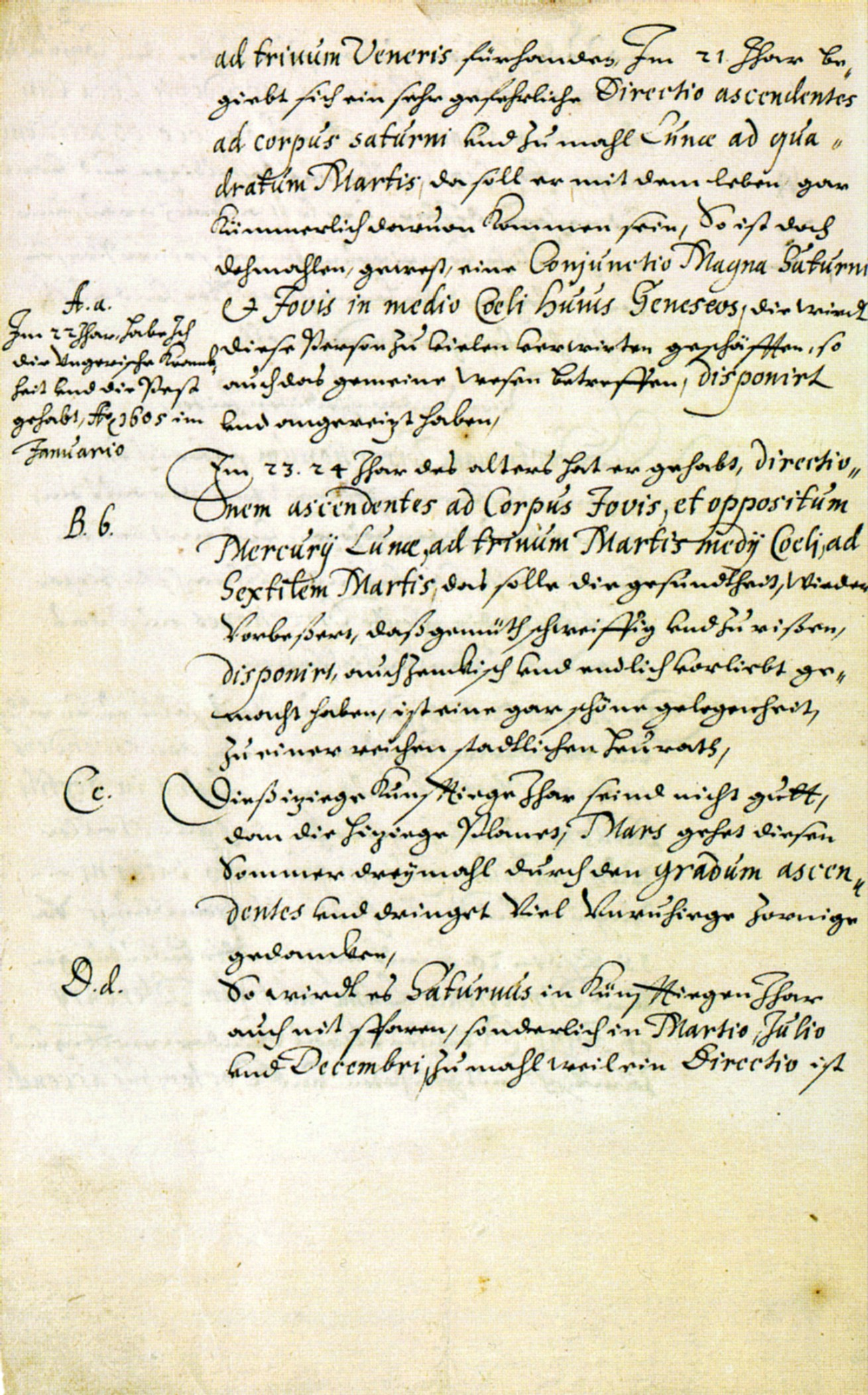 Extract from the first horoscope for Wallenstein of Johannes Kepler, the asides come from Wallenstein